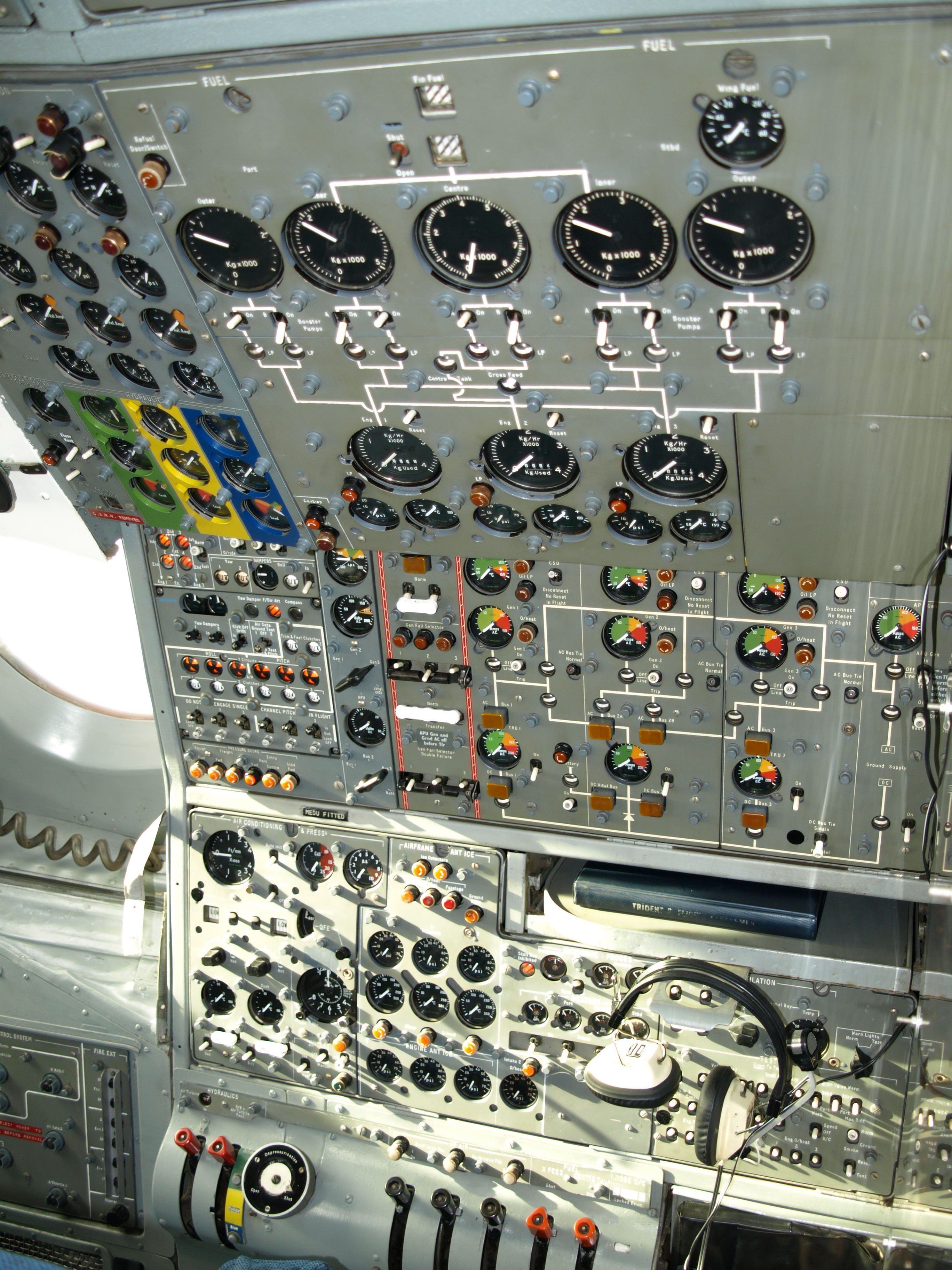 P3 (Flight engineer) position of a Hawker Siddeley Trident aircraft. Image taken at the Imperial war Museum Duxford.